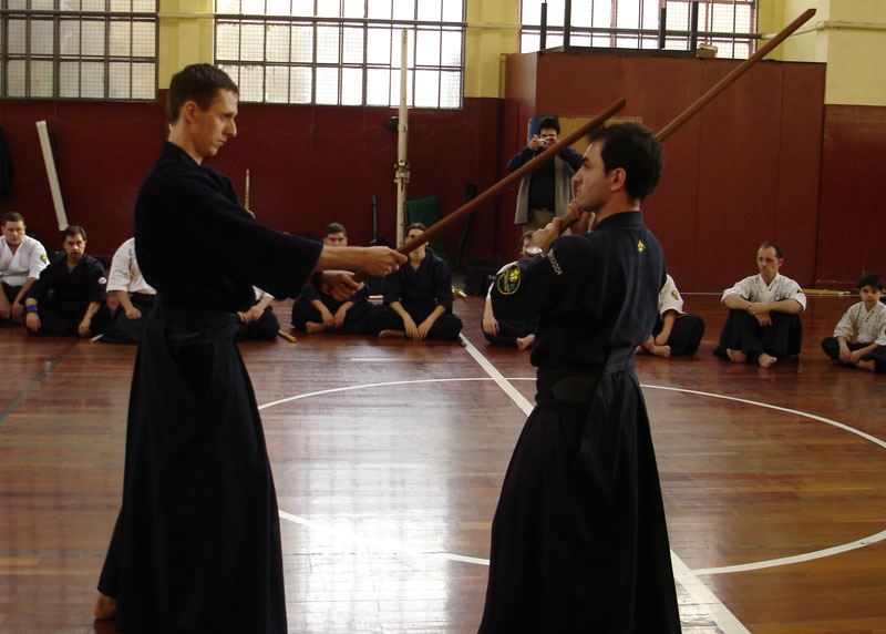 Niten Institute Seminar on Argentina, Niten Ichi Ryu demonstration